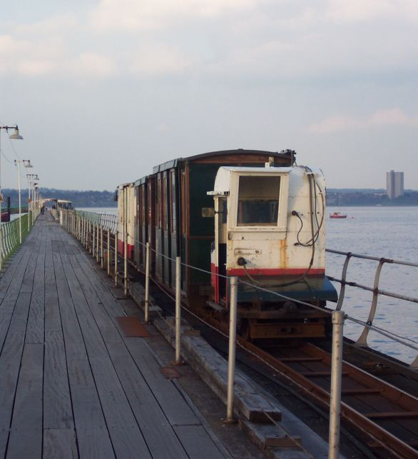 Pier Train, Hythe Pier, in the English county of Hampshire. For more information see the Wikipedia article Hythe Pier, Railway and Ferry.